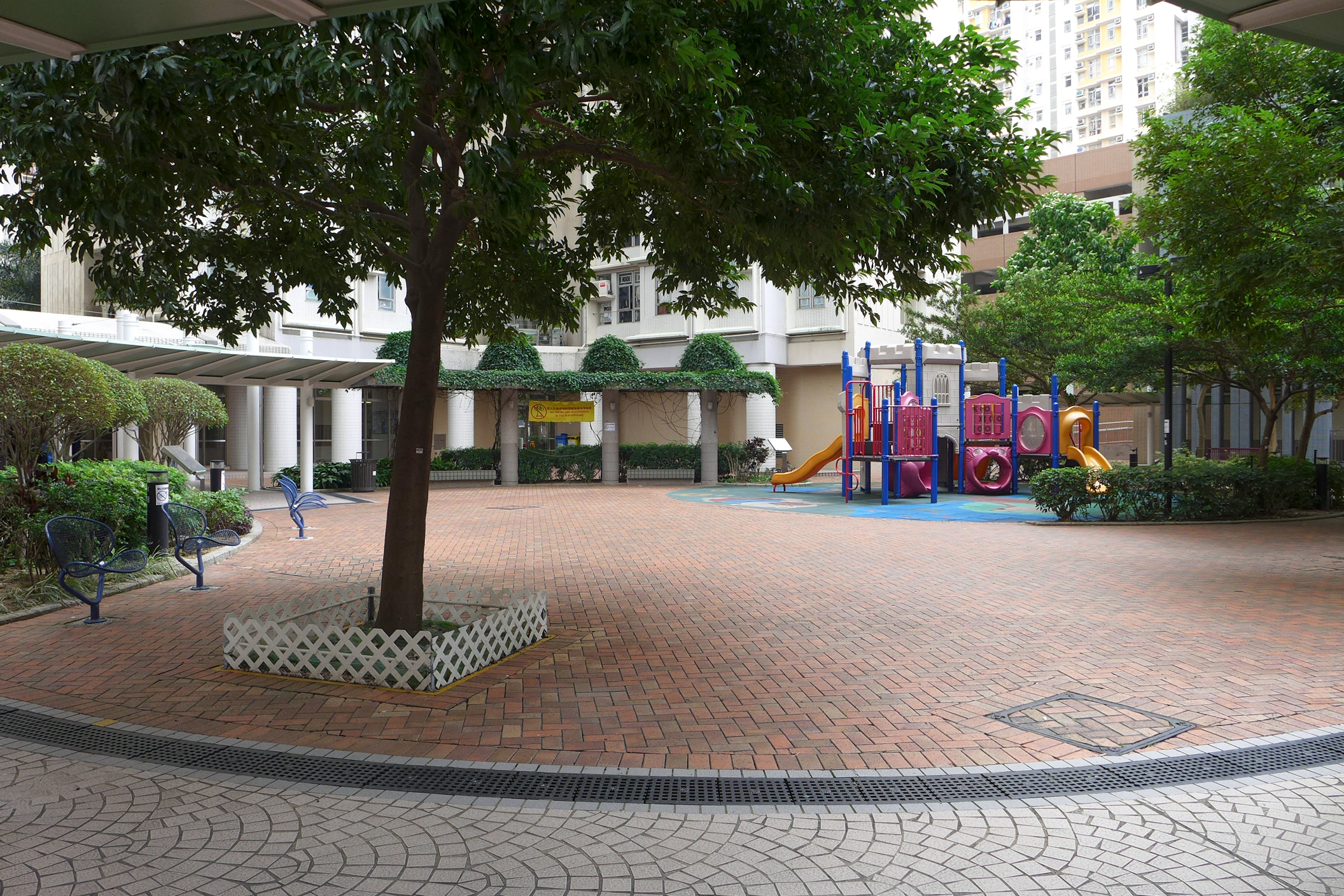 Yu Chui Court Children Playground